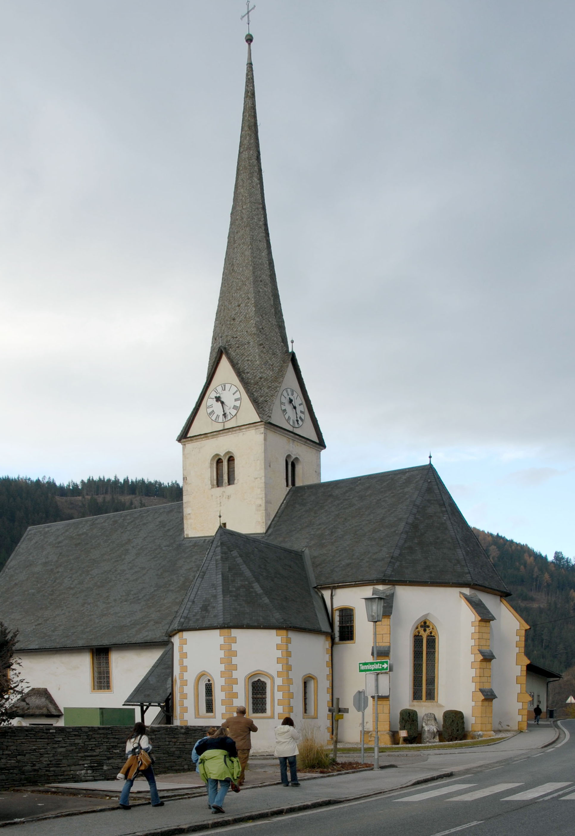 Church of Wieting in the community of Klein Sankt Paul, situated in the district Sankt Veit an der Glan, Carinthia, Austria